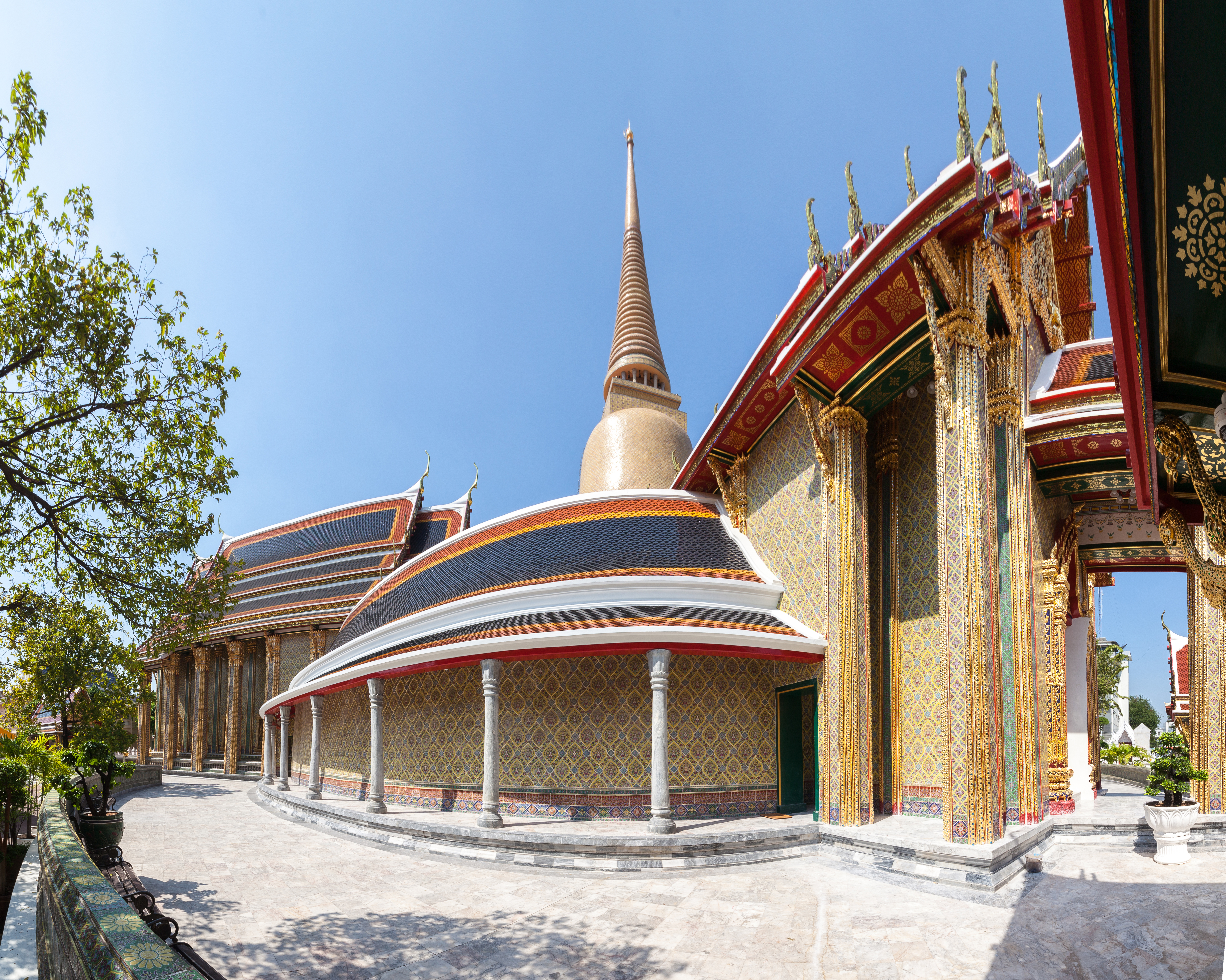 Wat Ratchabopit - buddhist temple (wat) in Phra Nakhon district, Bangkok.